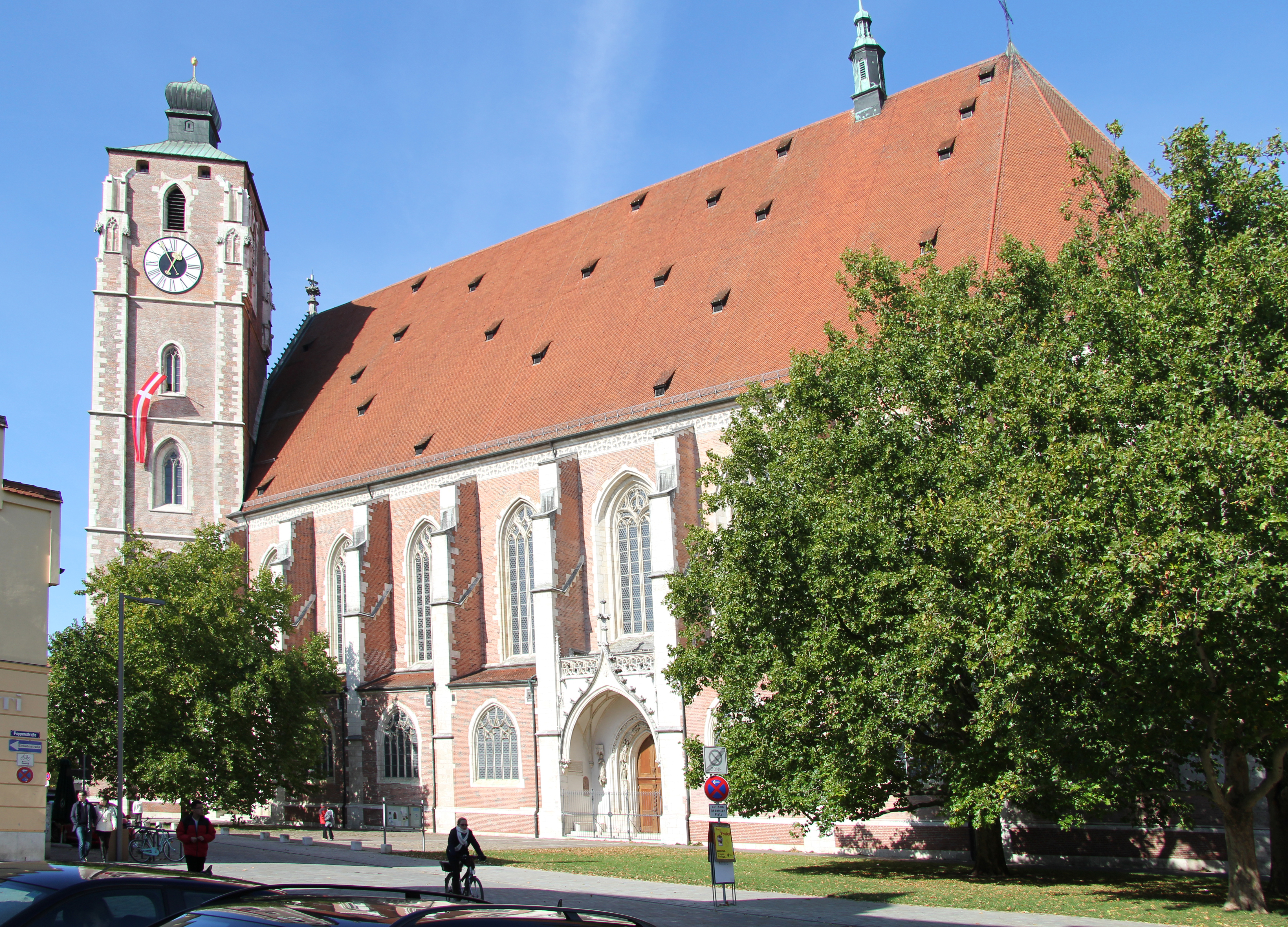 Ingolstadt, Liebfrauenmünster, south side